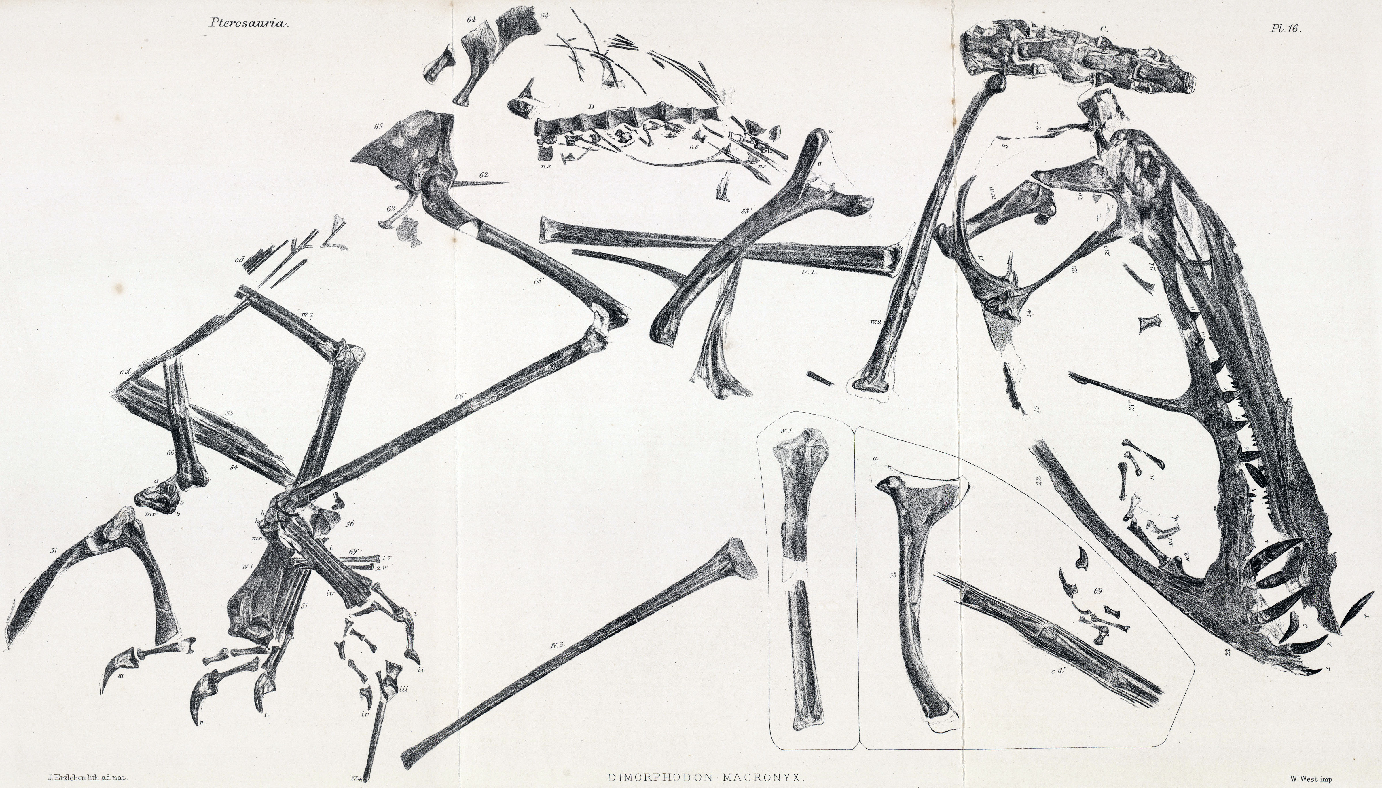 Dimorphodon macronyx fossil from Lyme Regis.